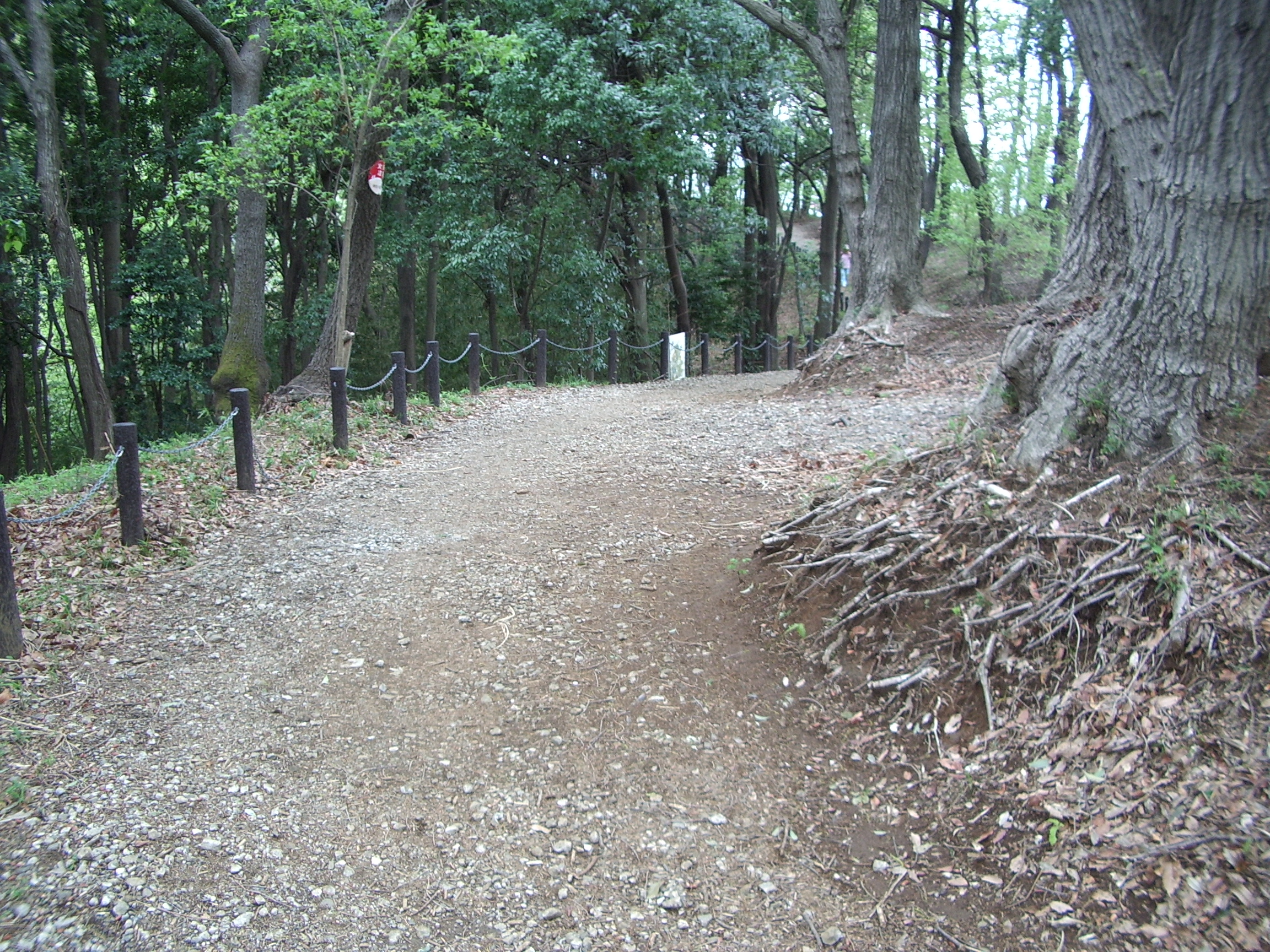 Yokoyamanomichi, Tama, Tokyo